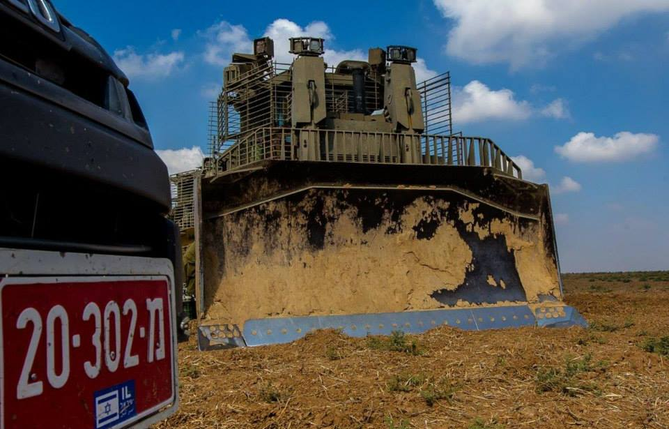 IDF Caterpillar D9 armored bulldozer parking outside the Gaza Strip during Operation Protective Edge